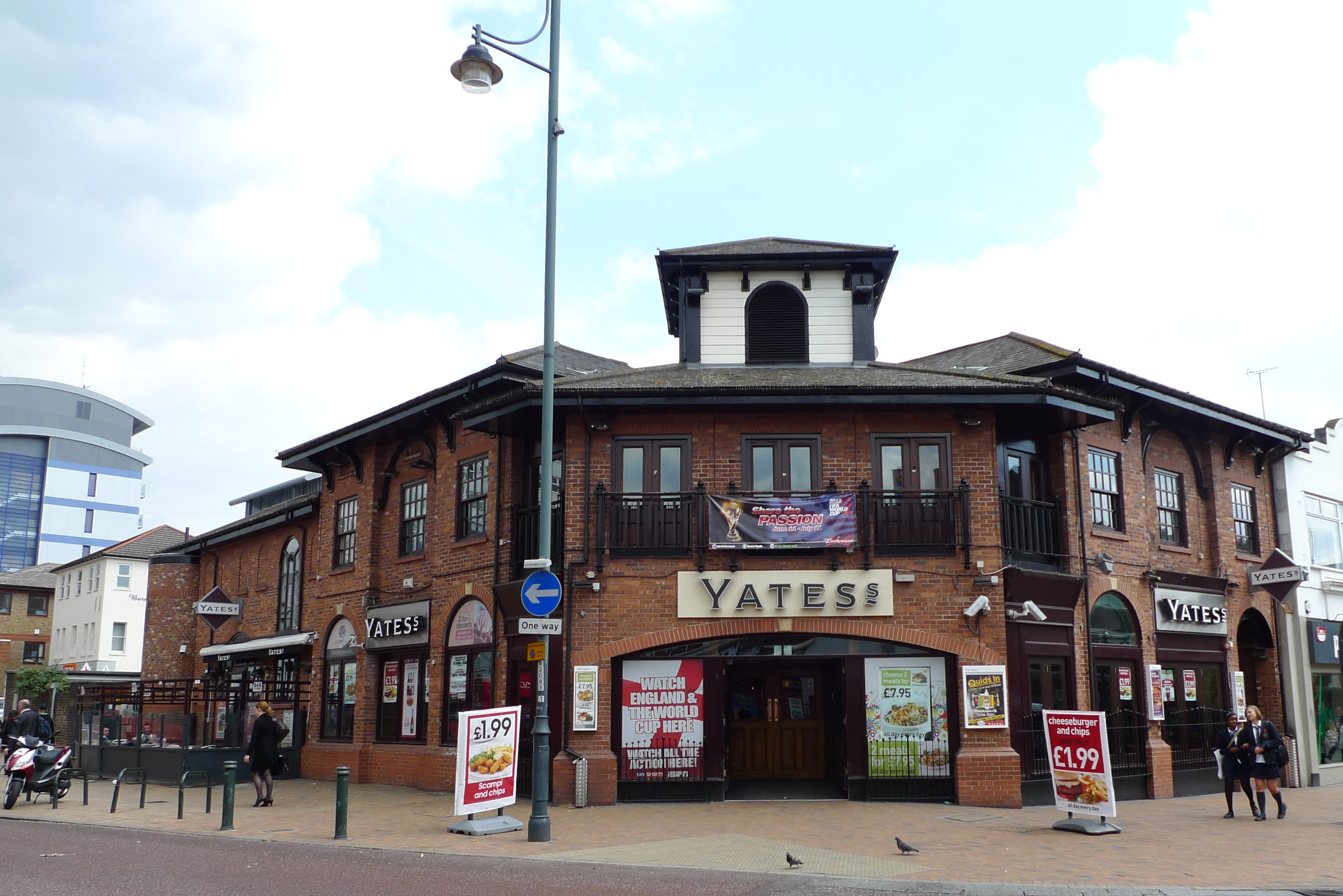 A large chain bar in Romford. Address: 87-89 South Street. Owner: Stonegate Pub Company [Town and City] (website and Stonegate website); Laurel Pub Co (former); Yates Group (former). Links: London Pubology